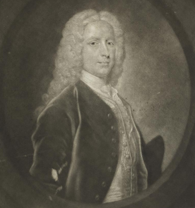 Sir Peter Halkett, 2nd Baronet of Pitfirrane, d. 1755. Soldier